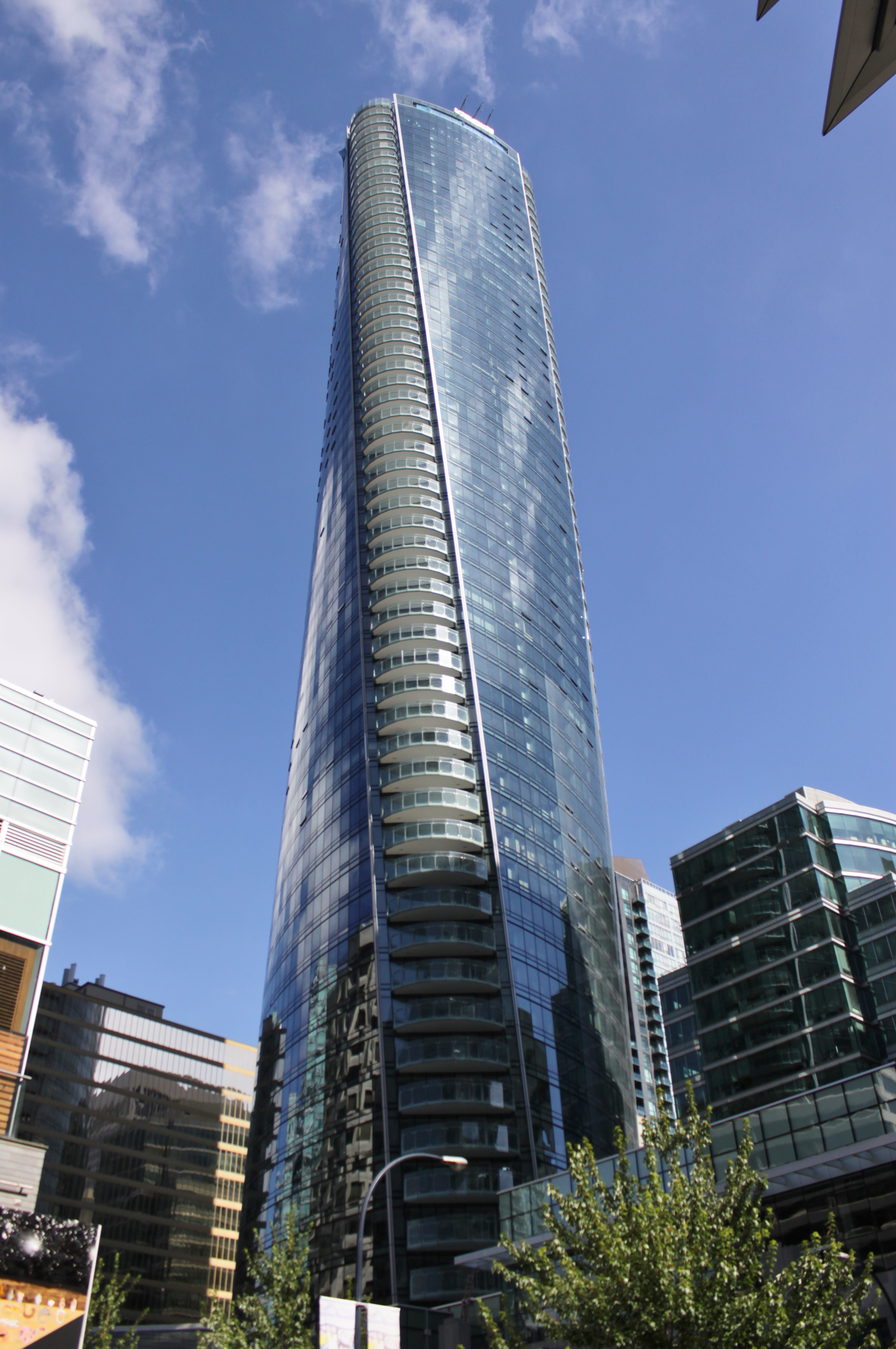 The Trump International Hotel and Tower in Vancouver, British Columbia, topped out